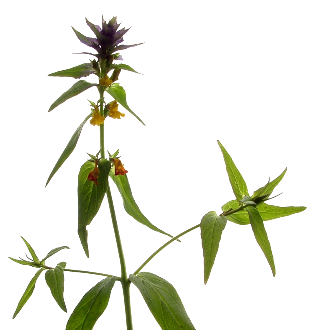 Melampyrum nemorosum, wild plant. Moscow region, Russia.